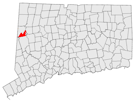 A base image already in the public domain on Wikipedia, slightly modified.